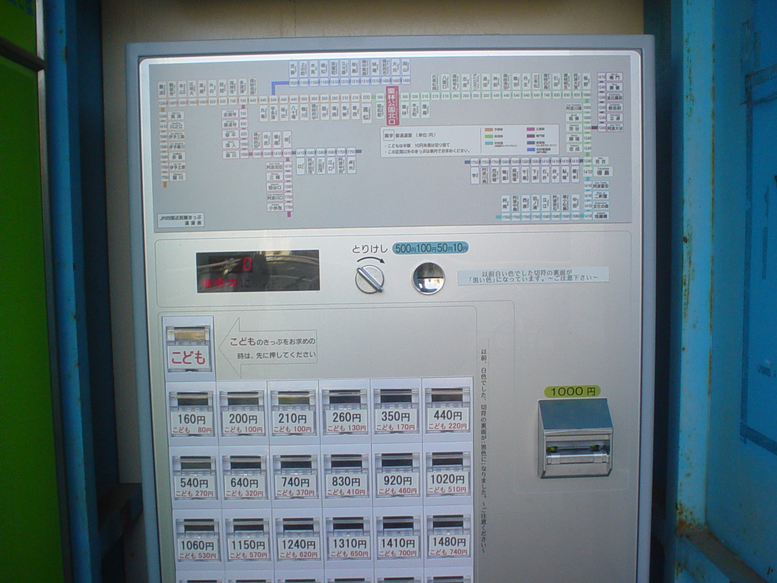 Ritsurinkōen-kitaguchi Ticket machine, Takamatsu, Kagawa.